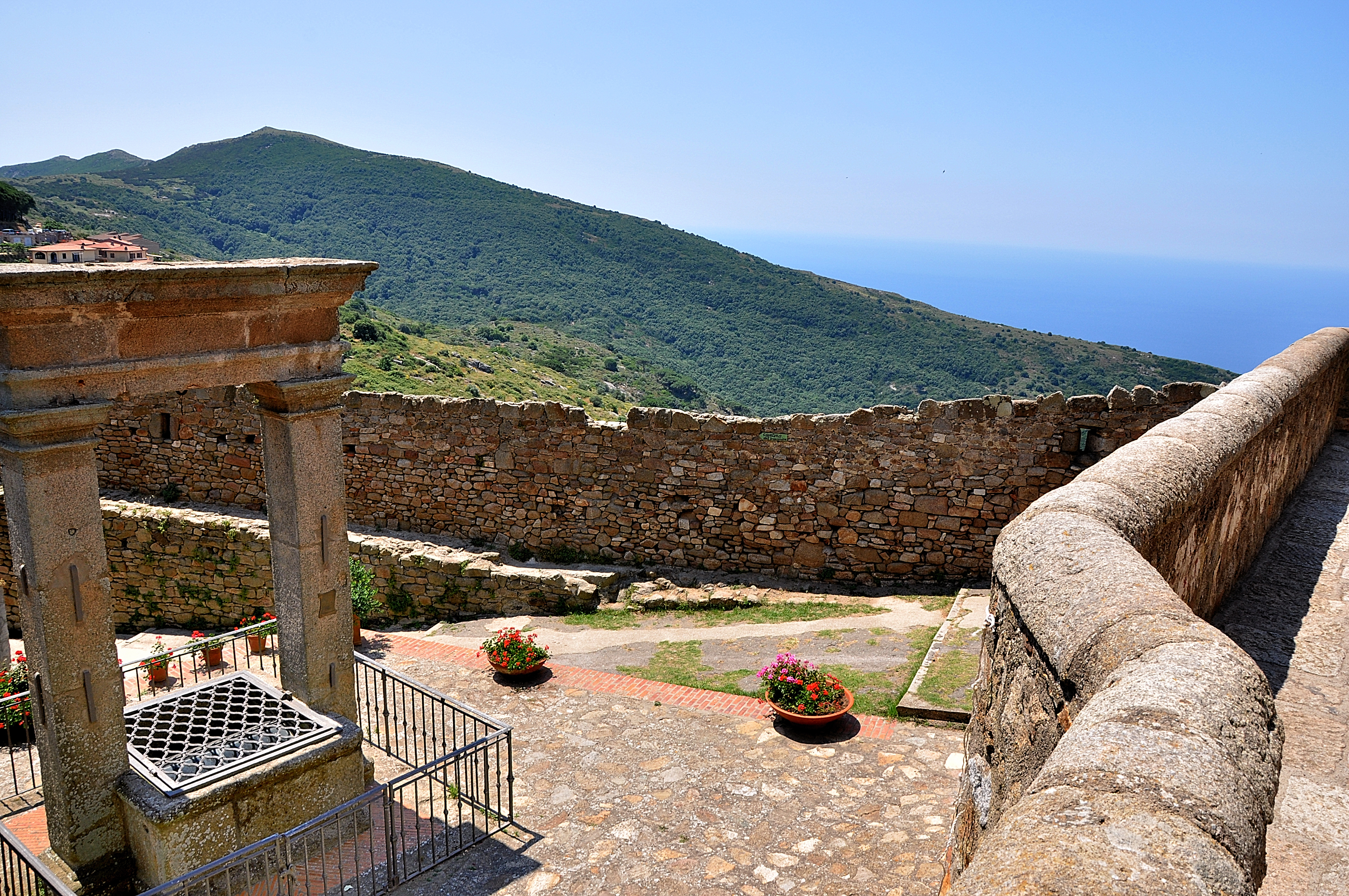 The castle at Giglio Castello, in the mountains of Isola del Giglio, Tuscany, Italy